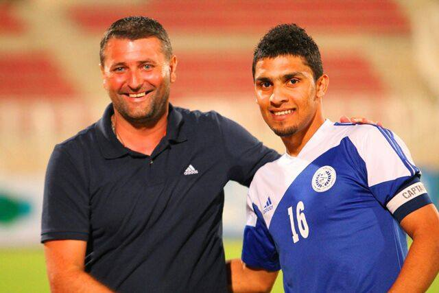 Aristică Cioabă with Oman national team player, Yaqoob Al-Qasmi after a match against Sur Club. 4 October 2012 Sur Sports Complex Photographer email id